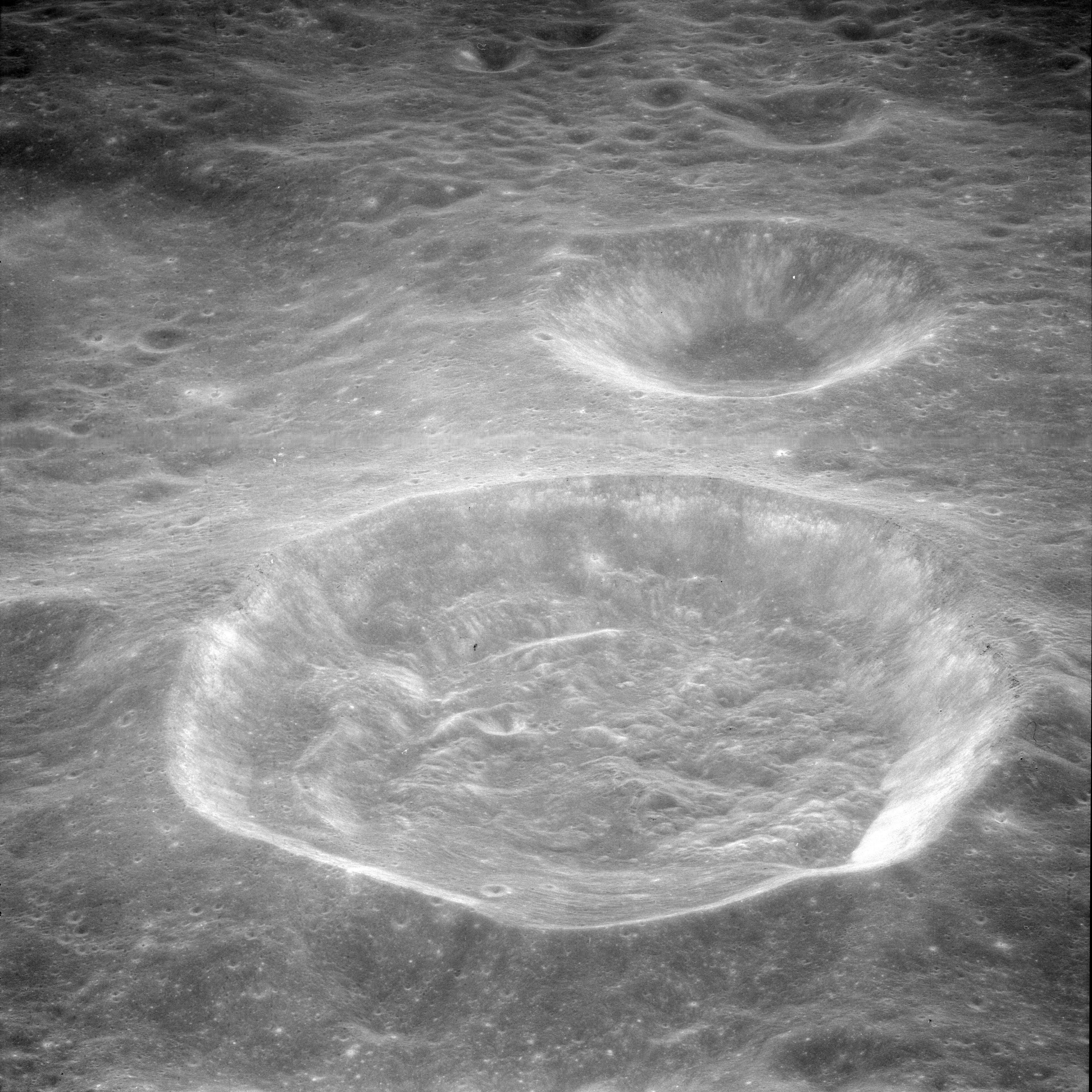 Oblique view of Green M crater, on the moon.